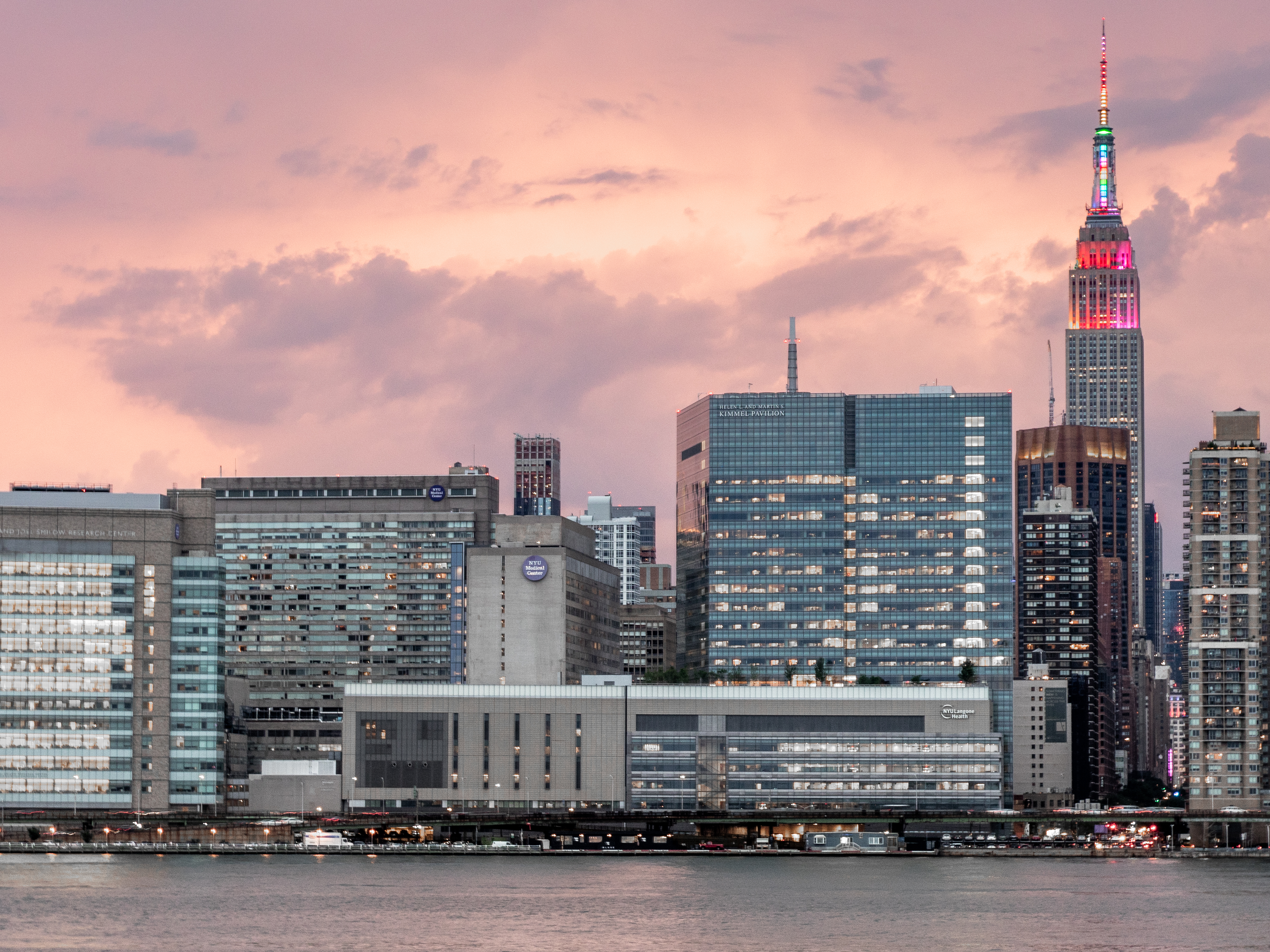 Taken from Long Island City during June 2018 (and during Pride Month)